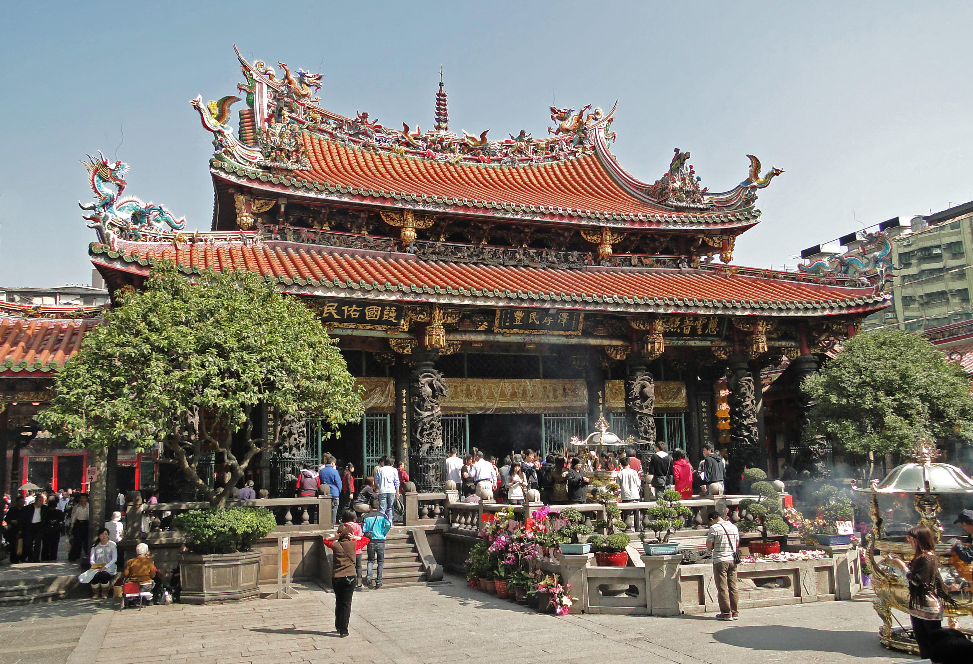 Main Hall of the Mengjia Longshan Temple in Taipei, Taiwan